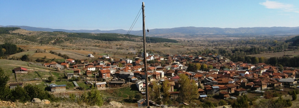 Budinarci, Berovo, Macedonia